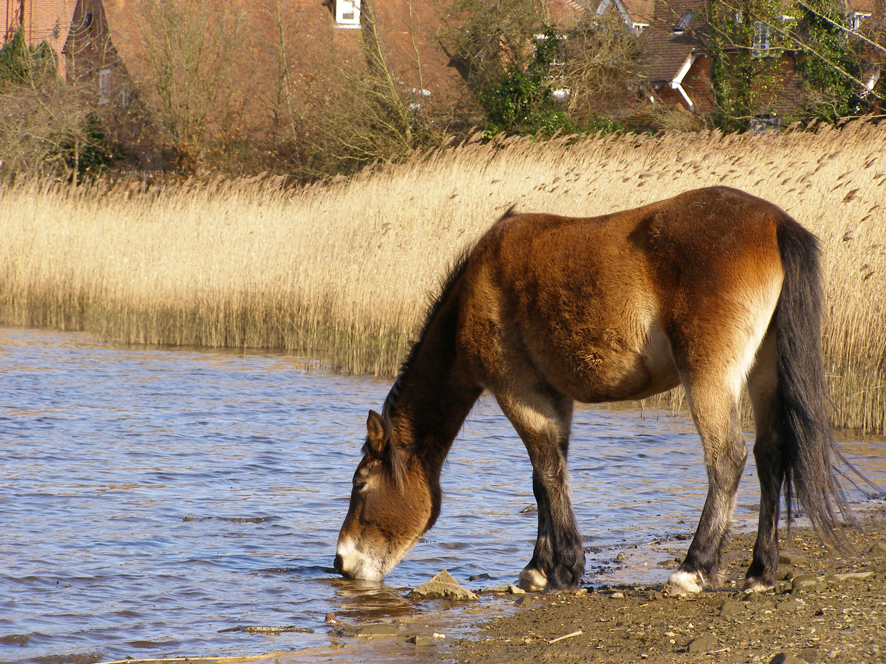 New Forest pony drinking from the Beaulieu Mill Dam.